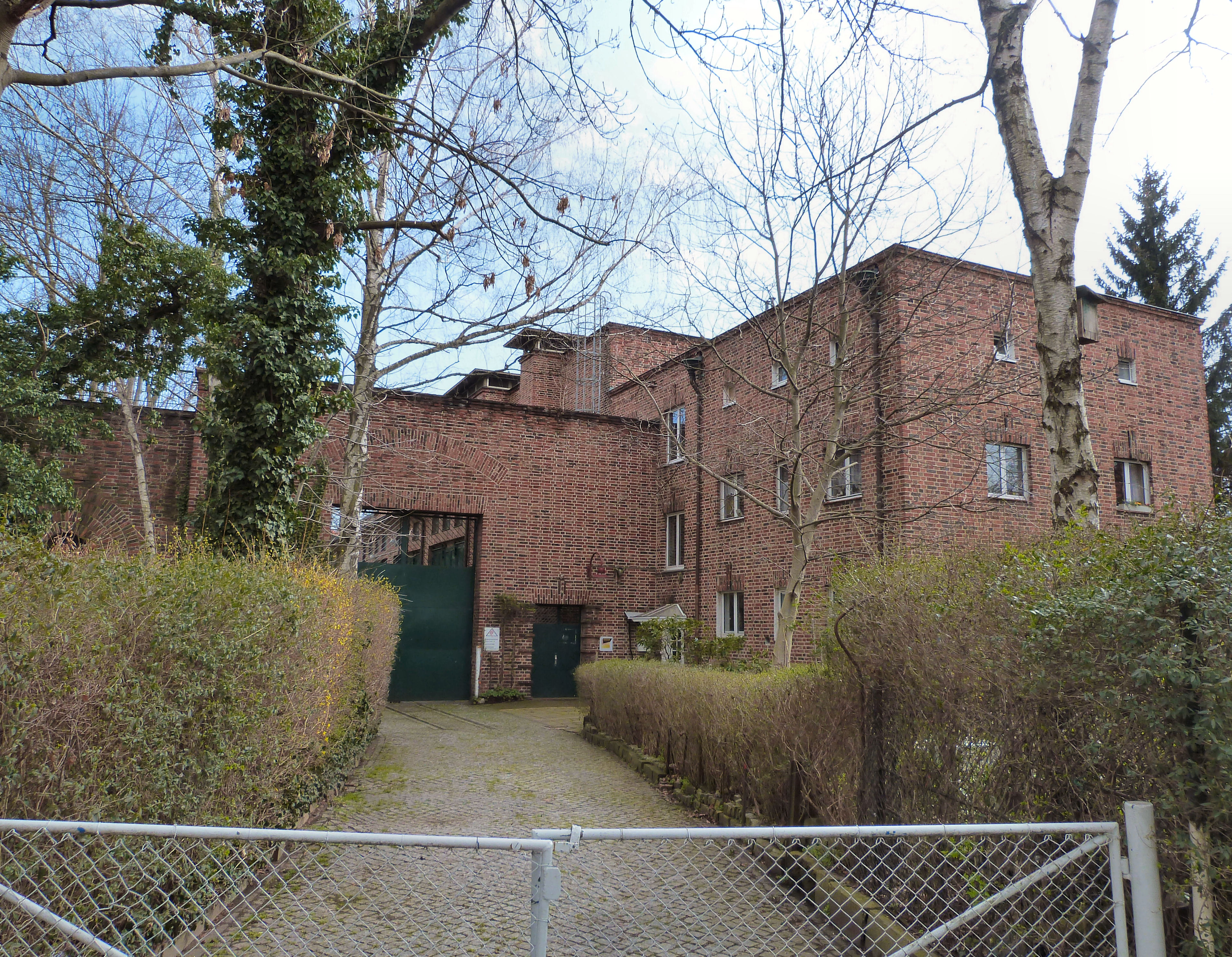 Former transformer substation, today historical technology center, Turmstrasse corner Lauchstädter Strasse, Halle (Saale)